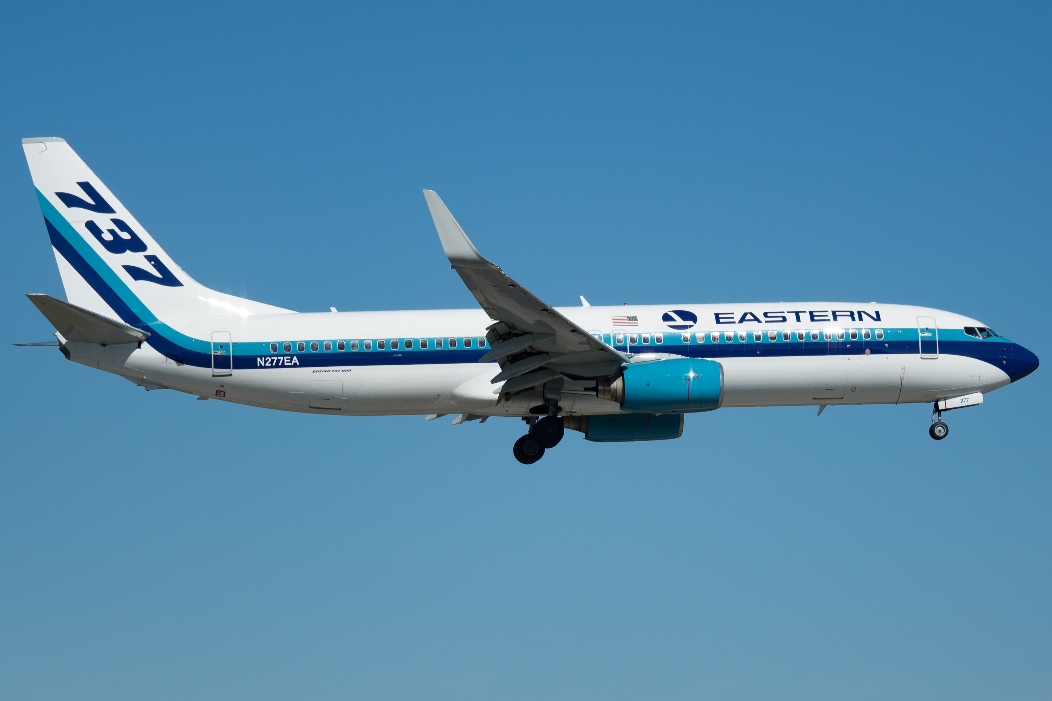 Planespotting MIA #FLAP2016